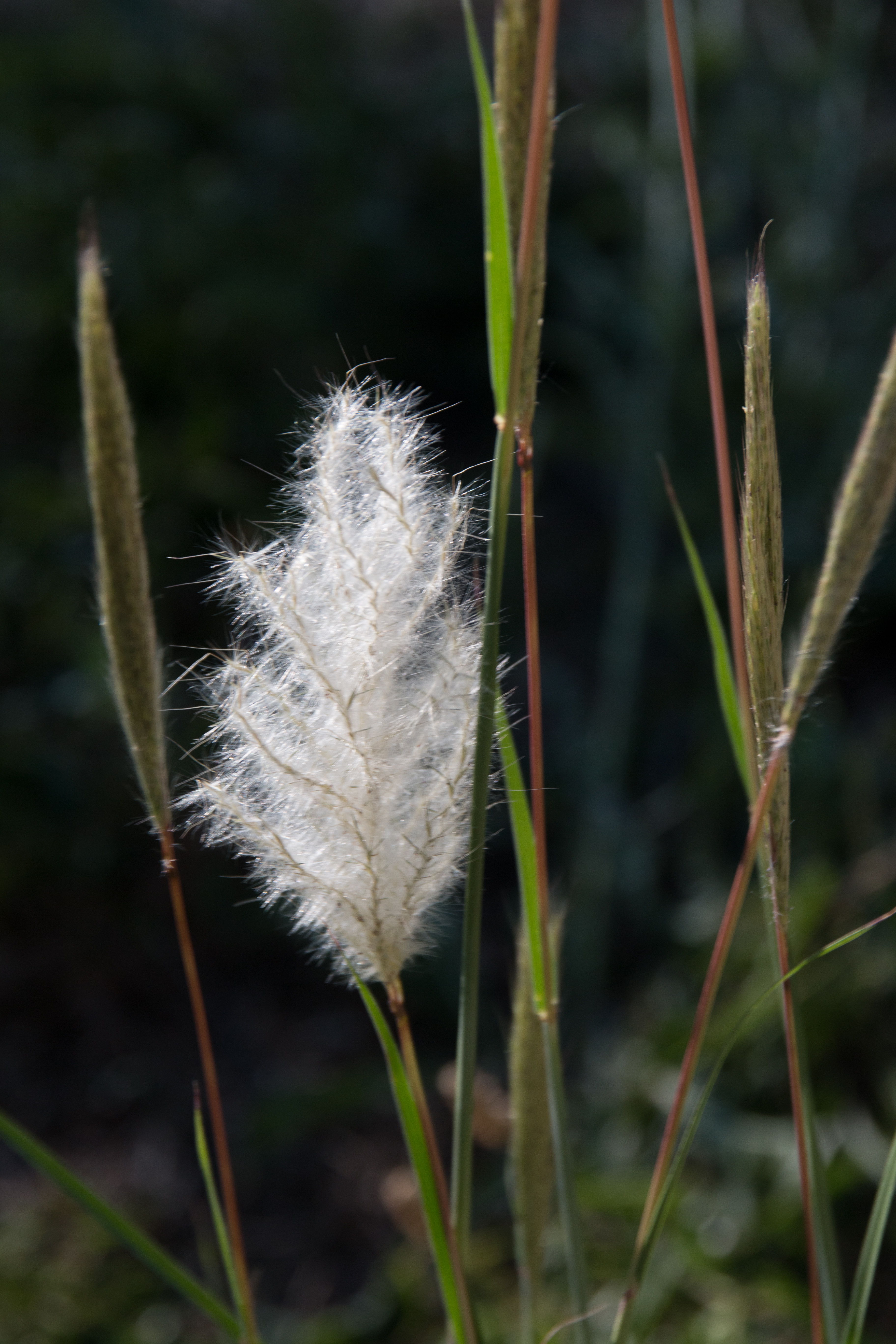 Inflorescence of Ravenna grass, Saccharum ravennae.